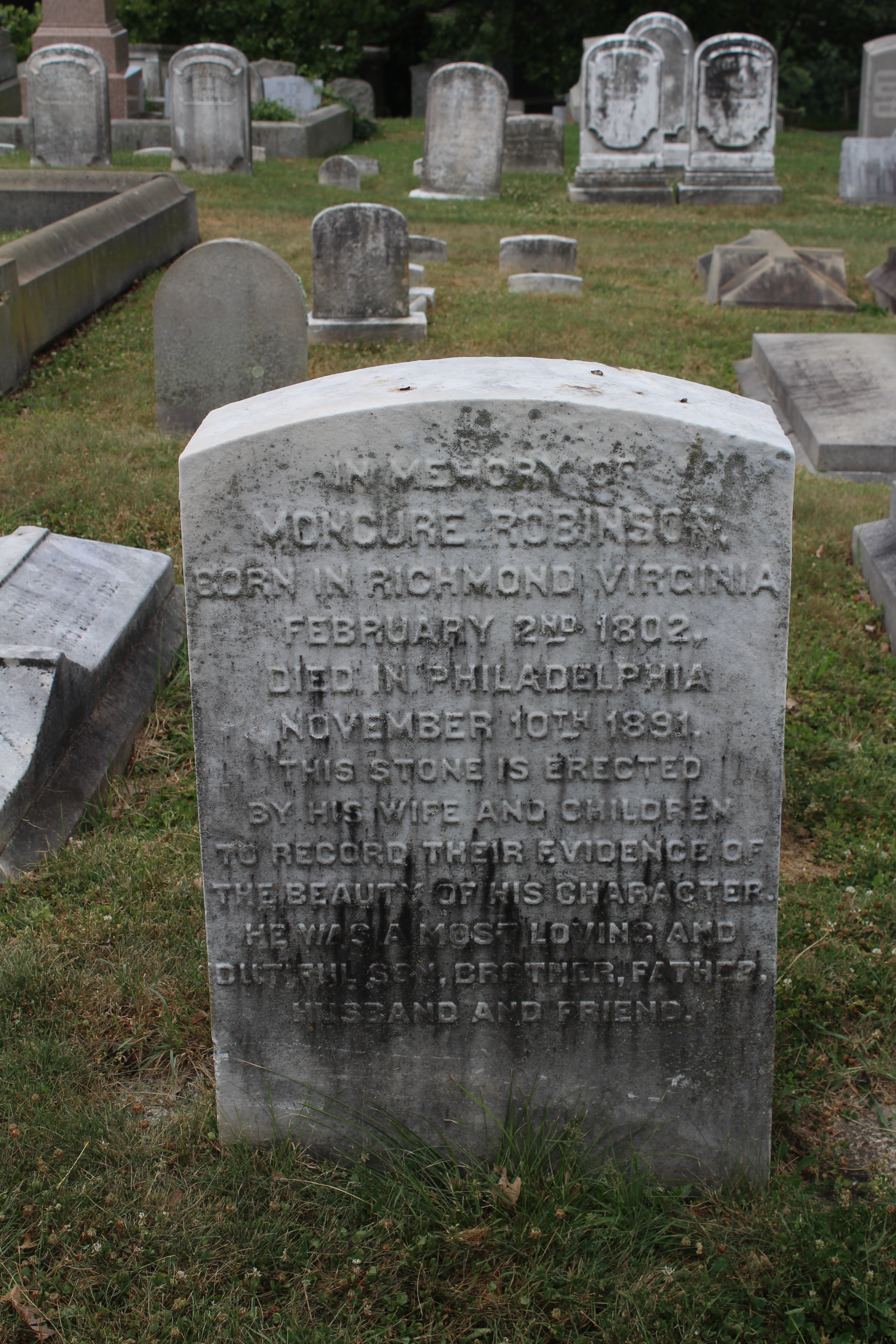 Moncure Robinson tombstone in Laurel Hill Cemetery. Photo taken July 2020.